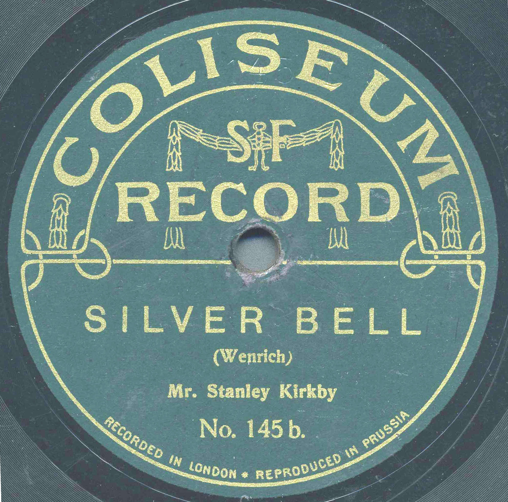 Record label for Stanley Kirkby singing the song Silver Bell on Coliseum Records.